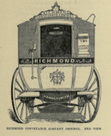 Richmond Conveyance Company omnibus, end view p.93 of Omnibuses and Cabs